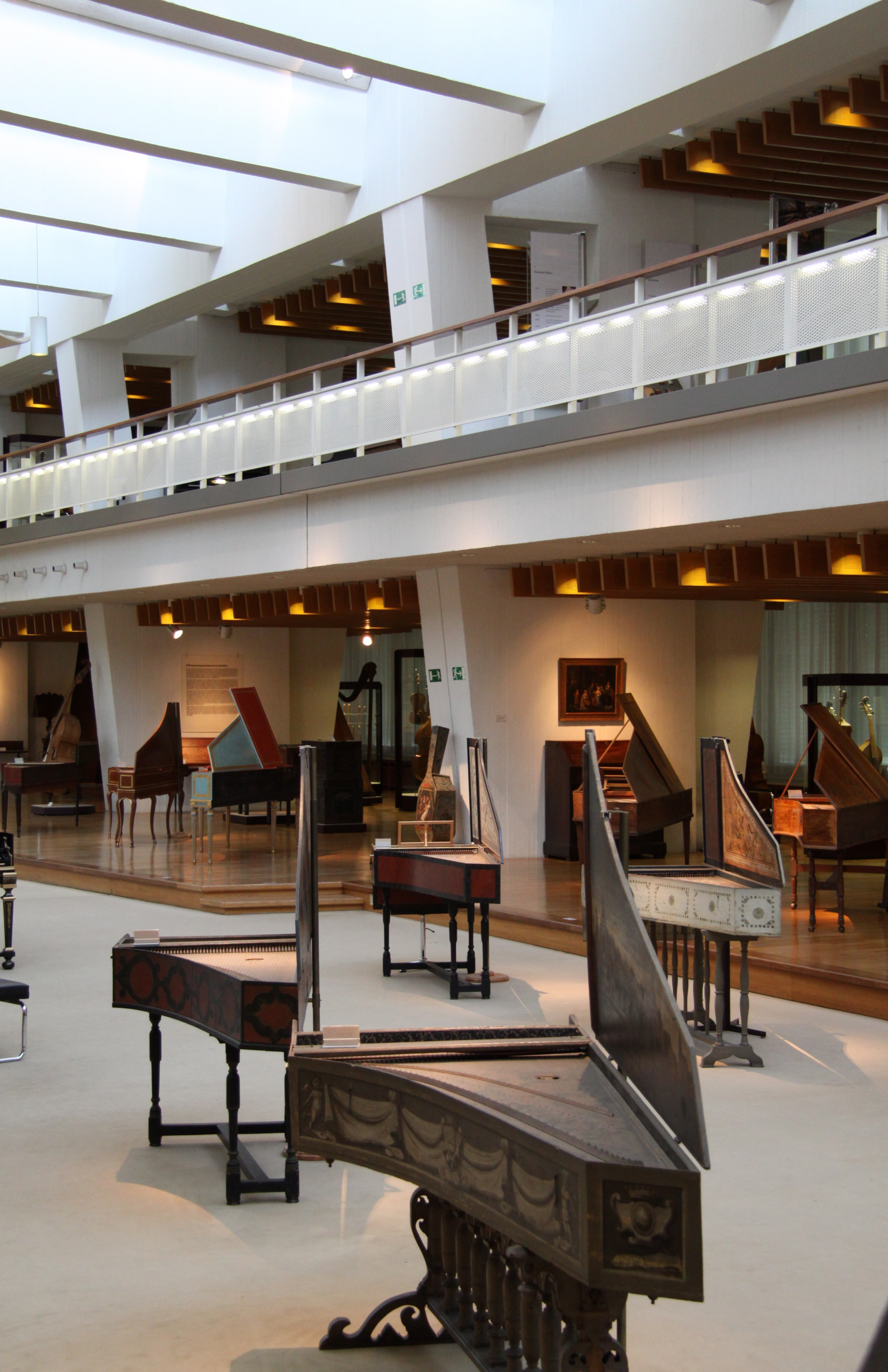 Harpsichords at the Museum for Musical Instruments in Berlin.